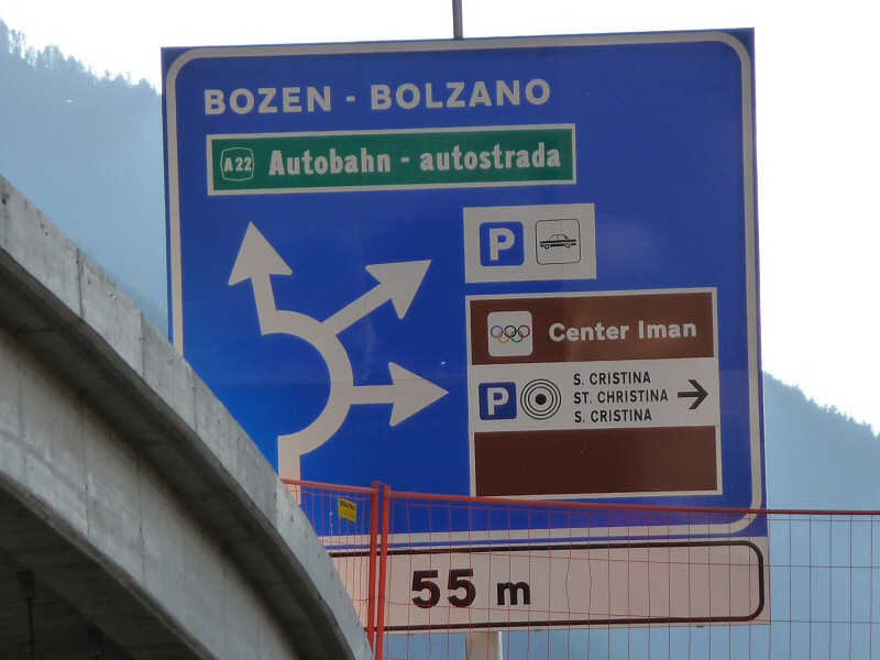 huge road-sign on the new by-pass for S.Cristina, showing the way to the town's centre